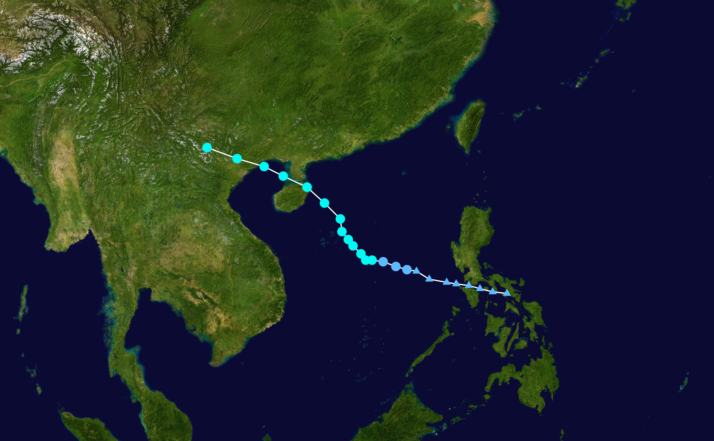 Track map of Severe Tropical Storm Jebi of the 2013 Pacific typhoon season. The points show the location of the storm at 6-hour intervals. The colour represents the storm's maximum sustained wind speeds as classified in the Saffir–Simpson scale (see below), and the shape of the data points represent the nature of the storm, according to the legend below. Saffir–Simpson scale Tropical depression≤38 mph≤62 km/h Category 3111–129 mph178–208 km/h Tropical storm39–73 mph63–118 km/h Category 4130–156 mph209–251 km/h Category 174–95 mph119–153 km/h Category 5≥157 mph≥252 km/h Category 296–110 mph154–177 km/h Unknown Storm type Tropical cyclone Subtropical cyclone Extratropical cyclone / Remnant low / Tropical disturbance / Monsoon depression